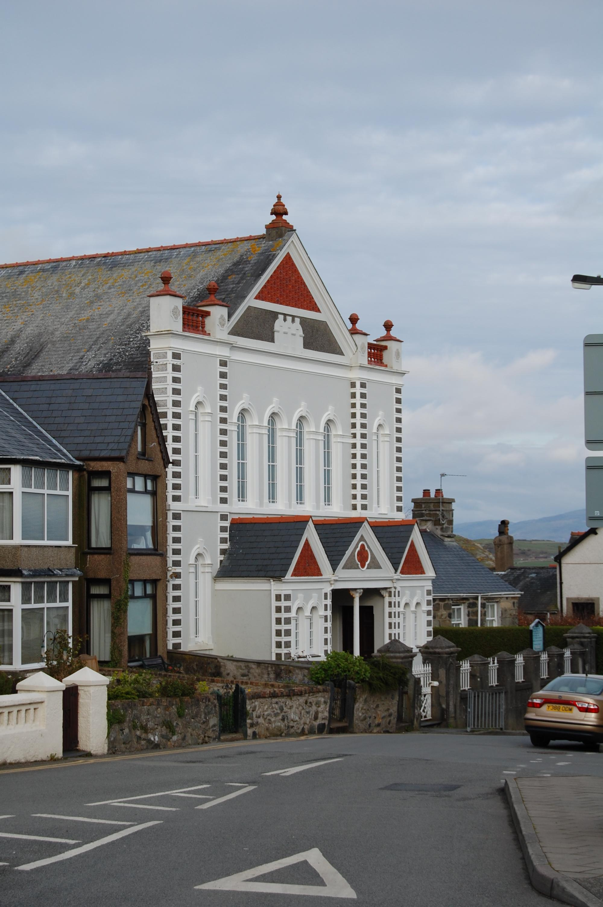 Capel y Traeth, Criccieth. Capel y Traeth on Penpaled Road has a notable porticoed façade. It was built at a cost of £2,040 in 1895 by Owen Roberts of Porthmadog. Previously known as Capel Seion, it was renamed in 1995 when the congregation merged with that of Capel Mawr, reuniting the two congregations that had separated in 1889.